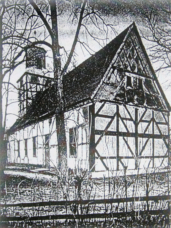 Former church in Barnówko (Berneuchen /N.M.), author G. Wagener, pencil copy dated 1845 (36,5:57 cm)